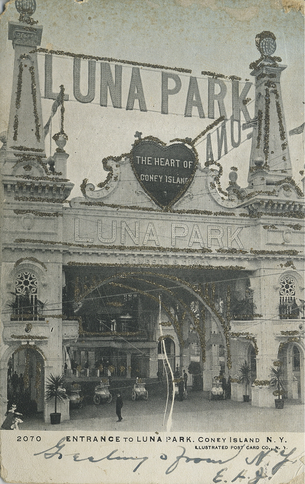 Postcard view "Entrance to Luna Park, Coney Island N.Y."